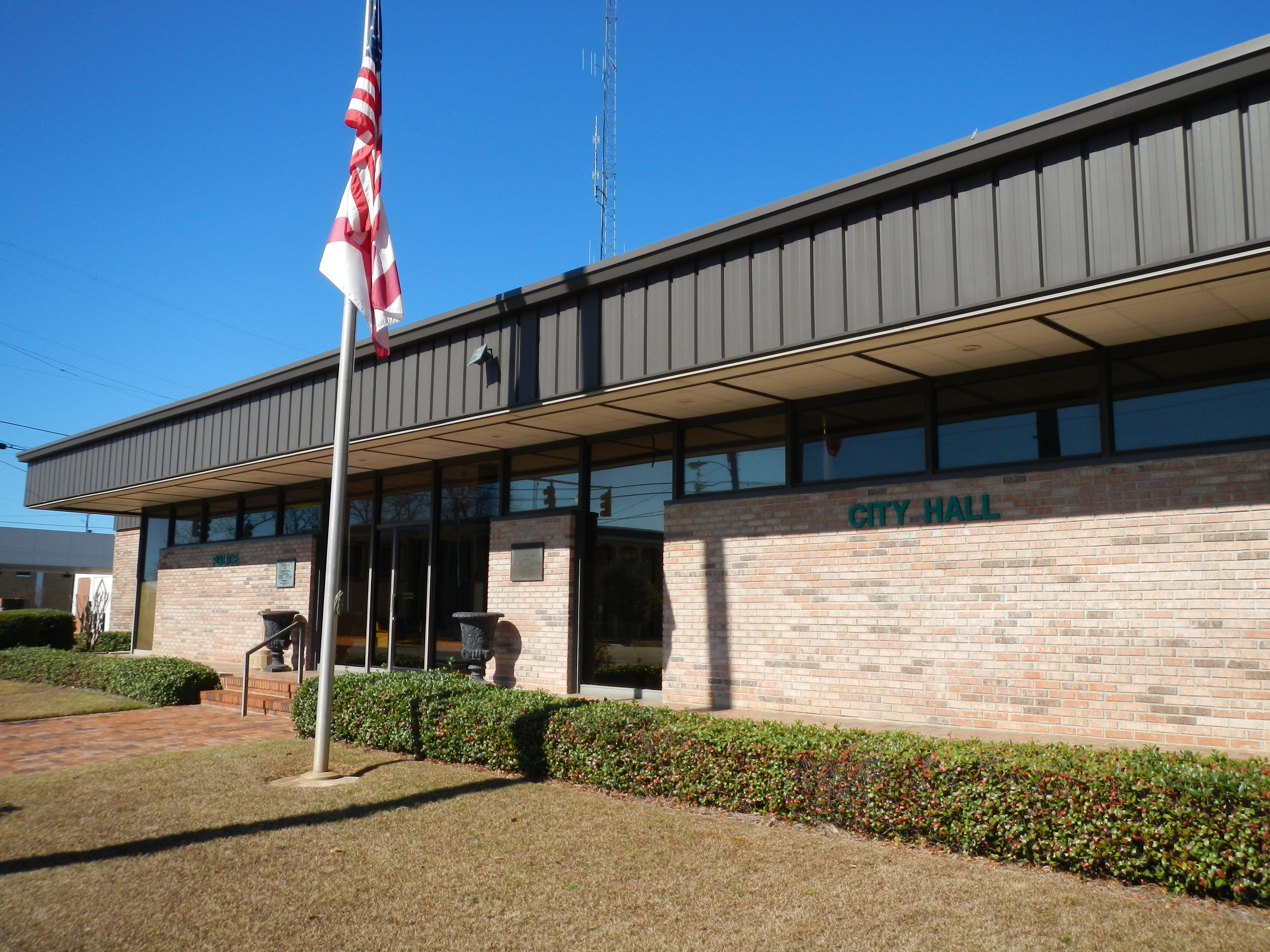 This is a photograph of the City Hall and Police Department building in Abbeville, Alabama.